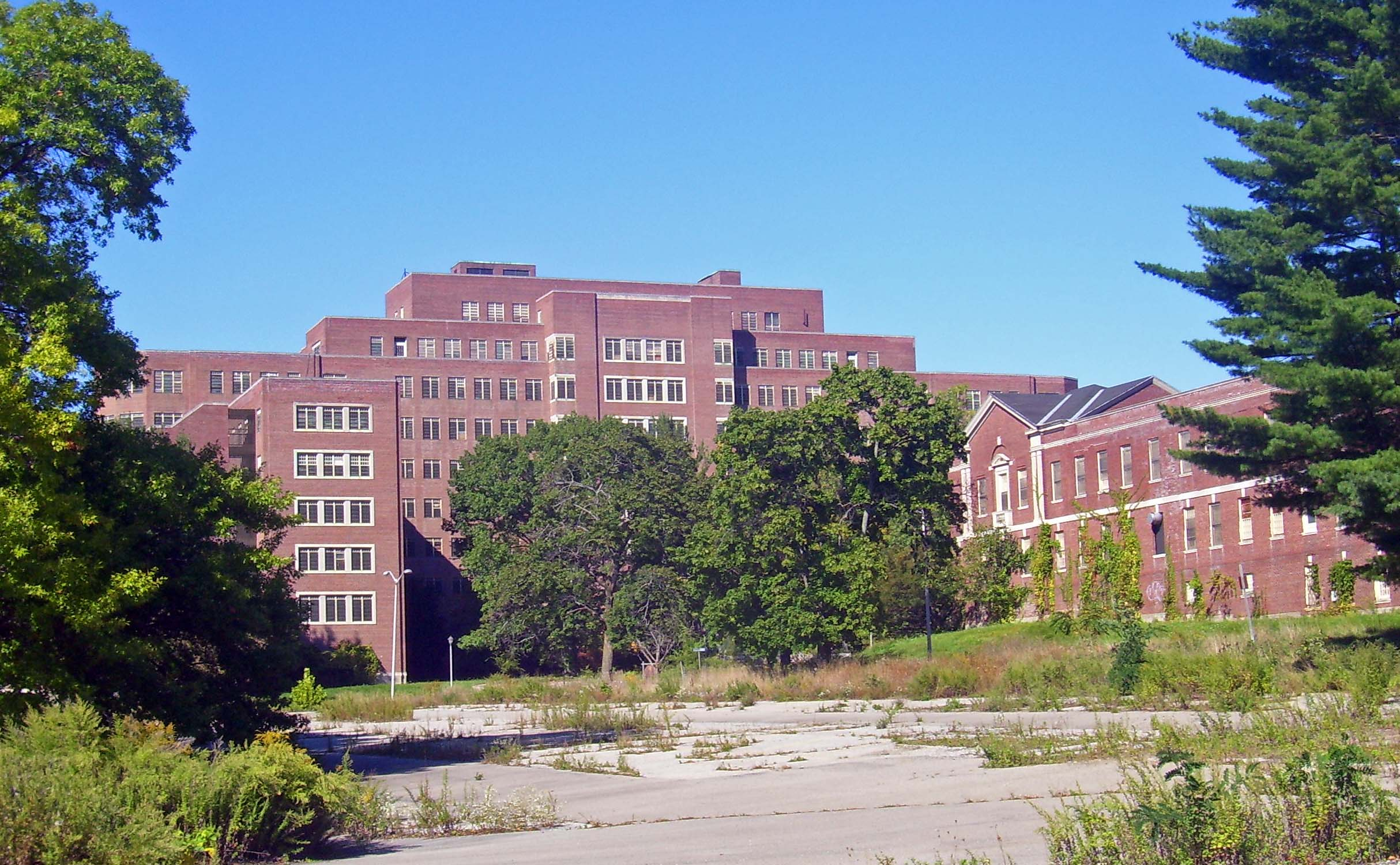 Abandoned buildings near the entrance of Hudson River Psychiatric Center in the Town of Poughkeepsie, NY, USA